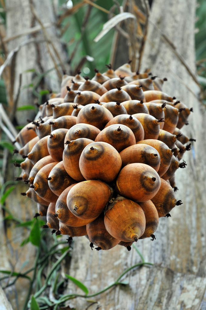 Oil palm growing in Guarayos, Santa Cruz, Bolivia